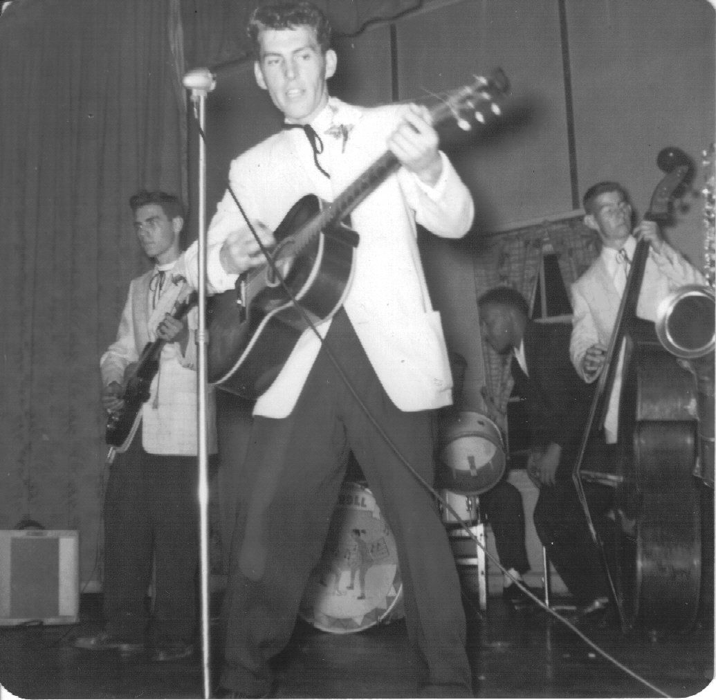 Eddy M Melason and the Rock-A-Billies performing in 1957